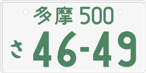 Japanese license plate for private vehicles. This sample license plate is registered to Tama, Tokyo.